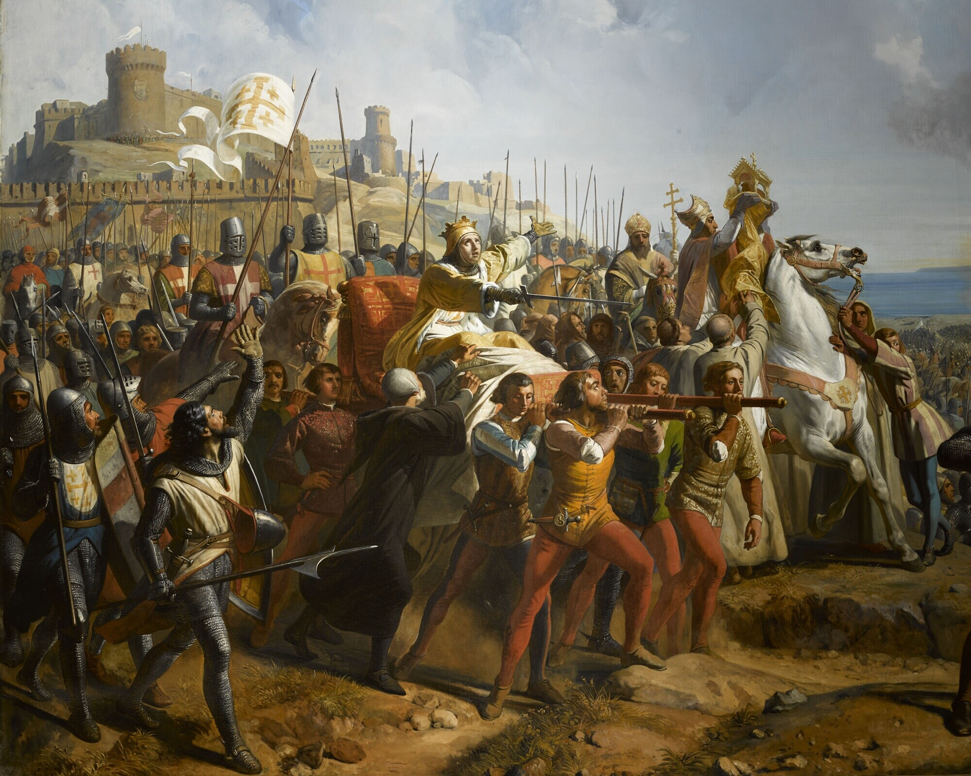 Fragment, Battle between Baldwin IV and Saladin's Egyptians, November 18, 1177.